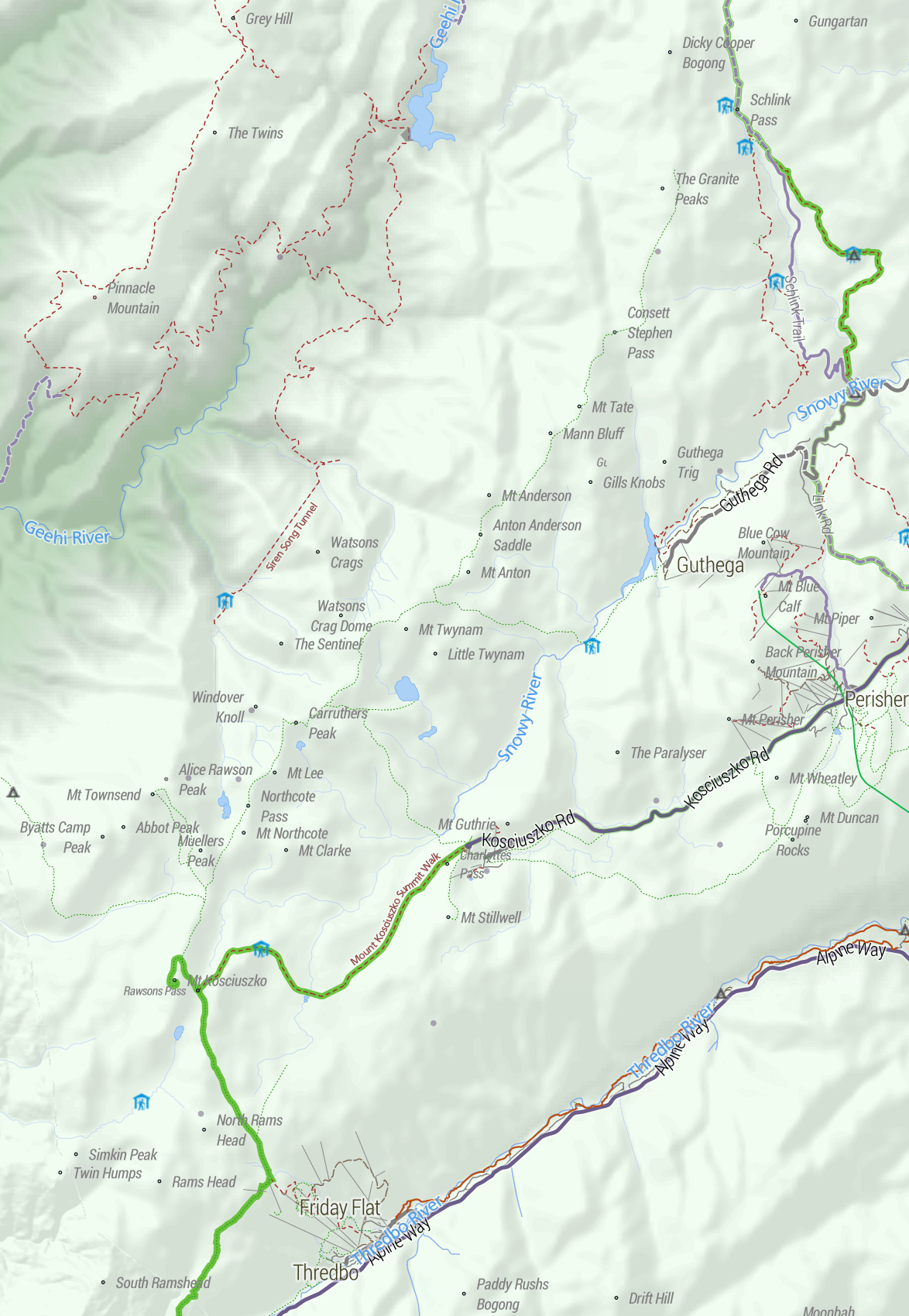 Map of the Snowy Mountains' Main Range. Data is OpenStreetMap, cartography by Steve Bennett.